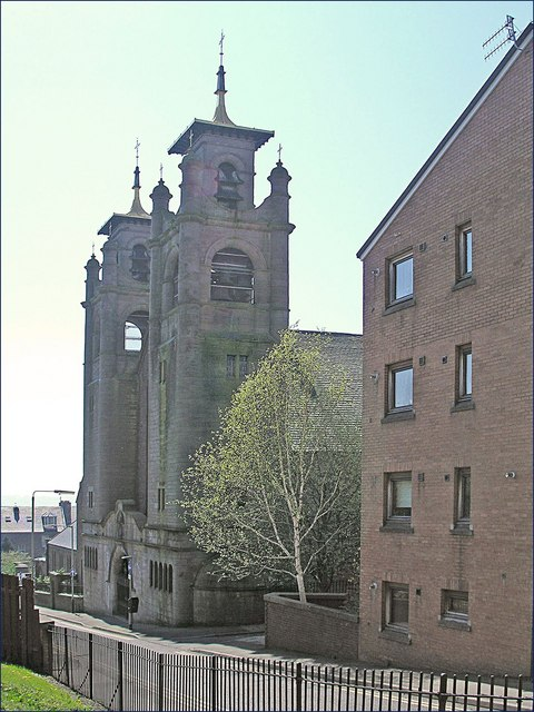 St. Mary's Forebank This 1900 church is notable for its twin bell towers. A marvellous example of Art Nouveau with a touch of Italian influence, they can be recognised from many parts of the city.